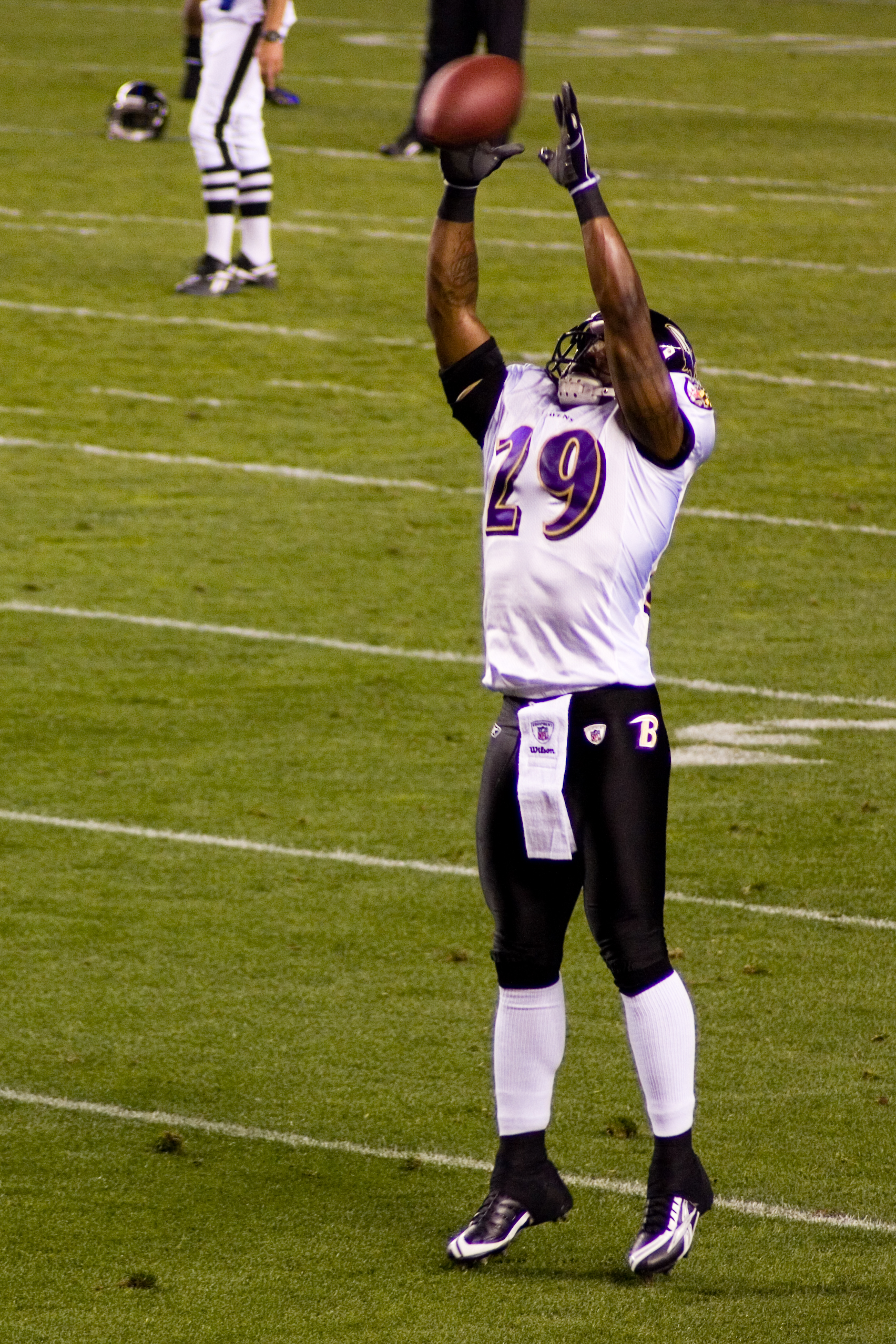 Derrick Martin of the Baltimore Ravens prior to a game